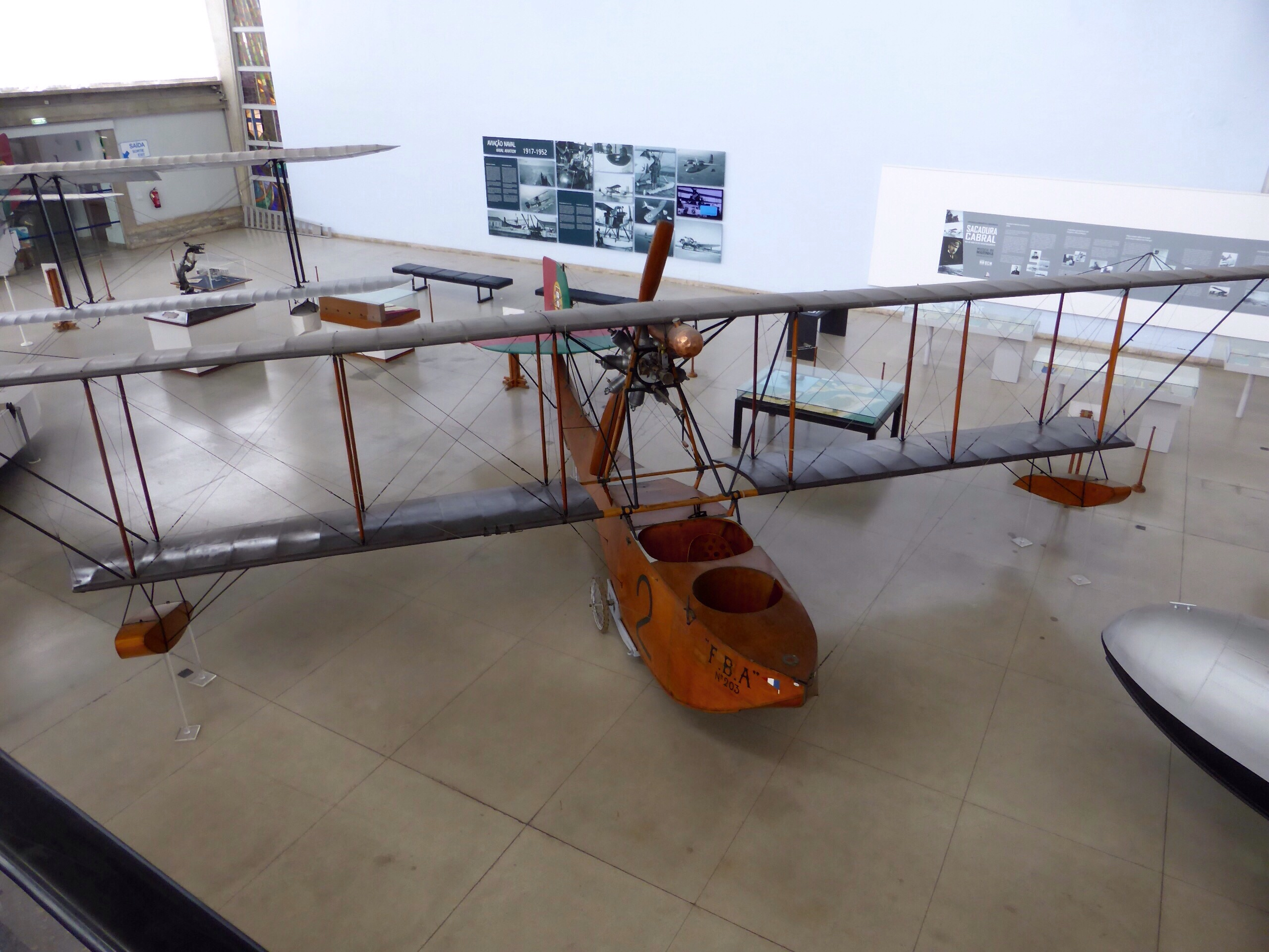 We had a week in Lisbon in early June. Had a good look around the city, a day trip to Sintra and a boat trip on the Tagus.